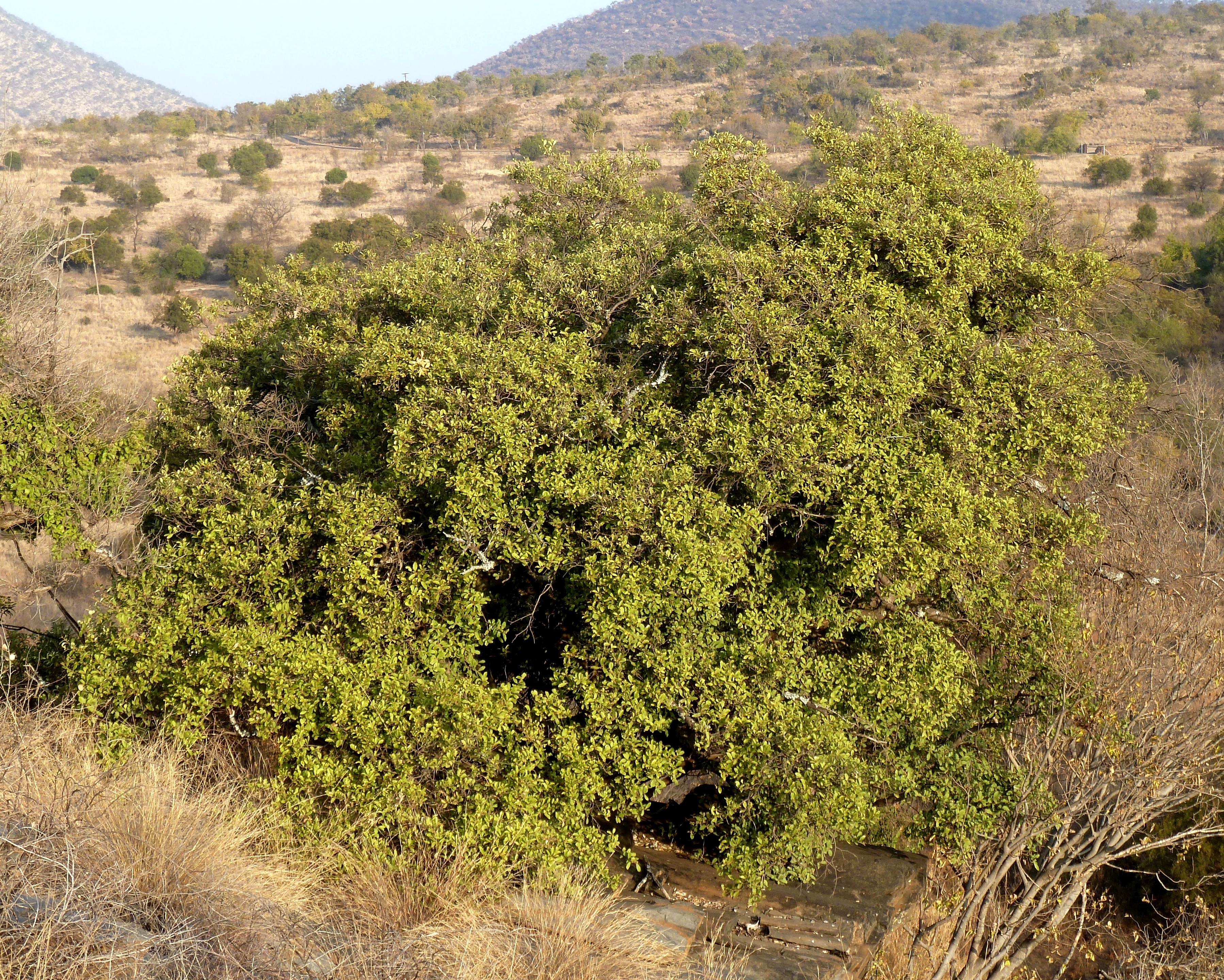 Habit of a Brittle-wood on the Phalandingwe trail, Pelindaba, South Africa. They often grow on cliff ledges.